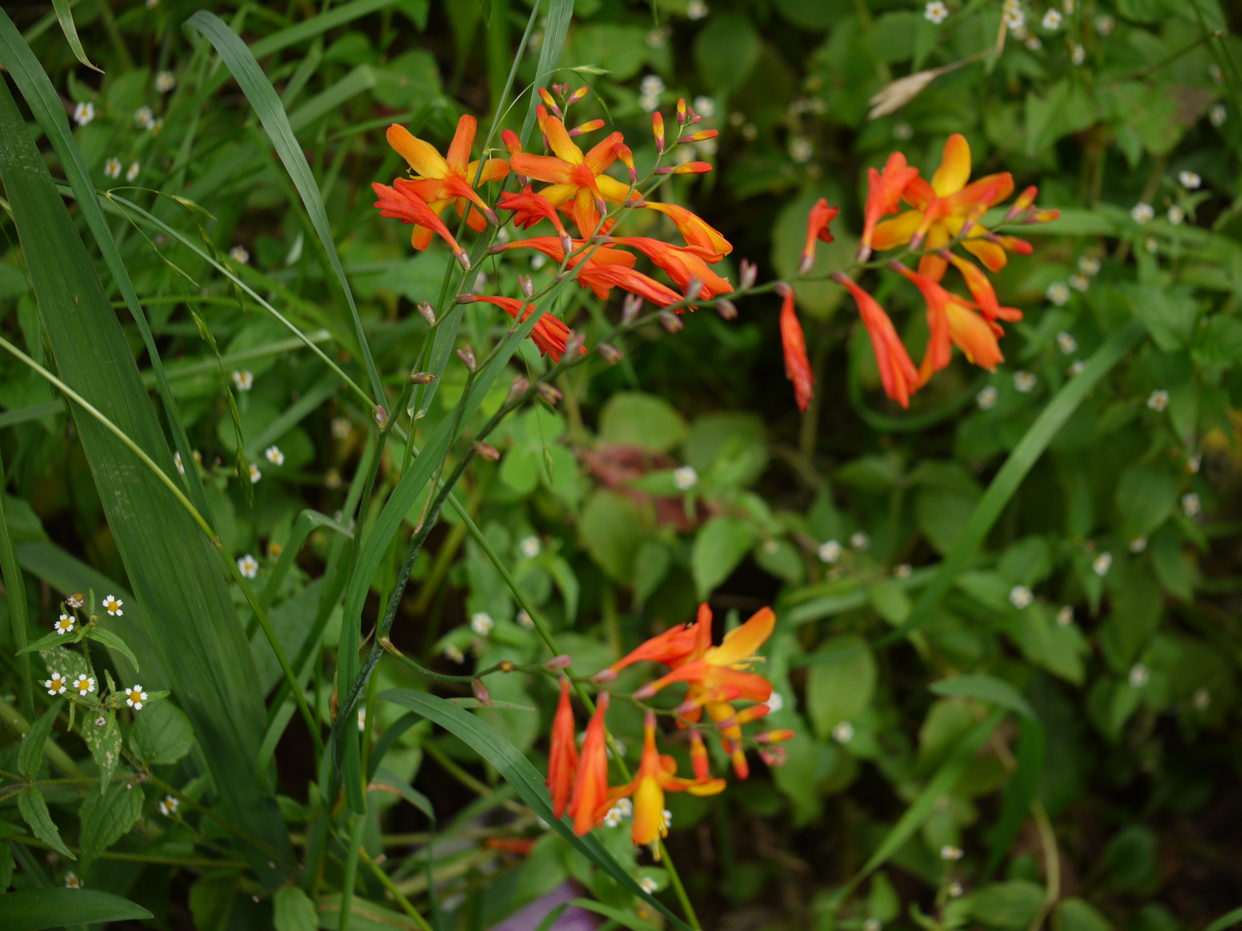 commonly known as: south African crocosmia